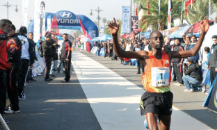 stephen tum